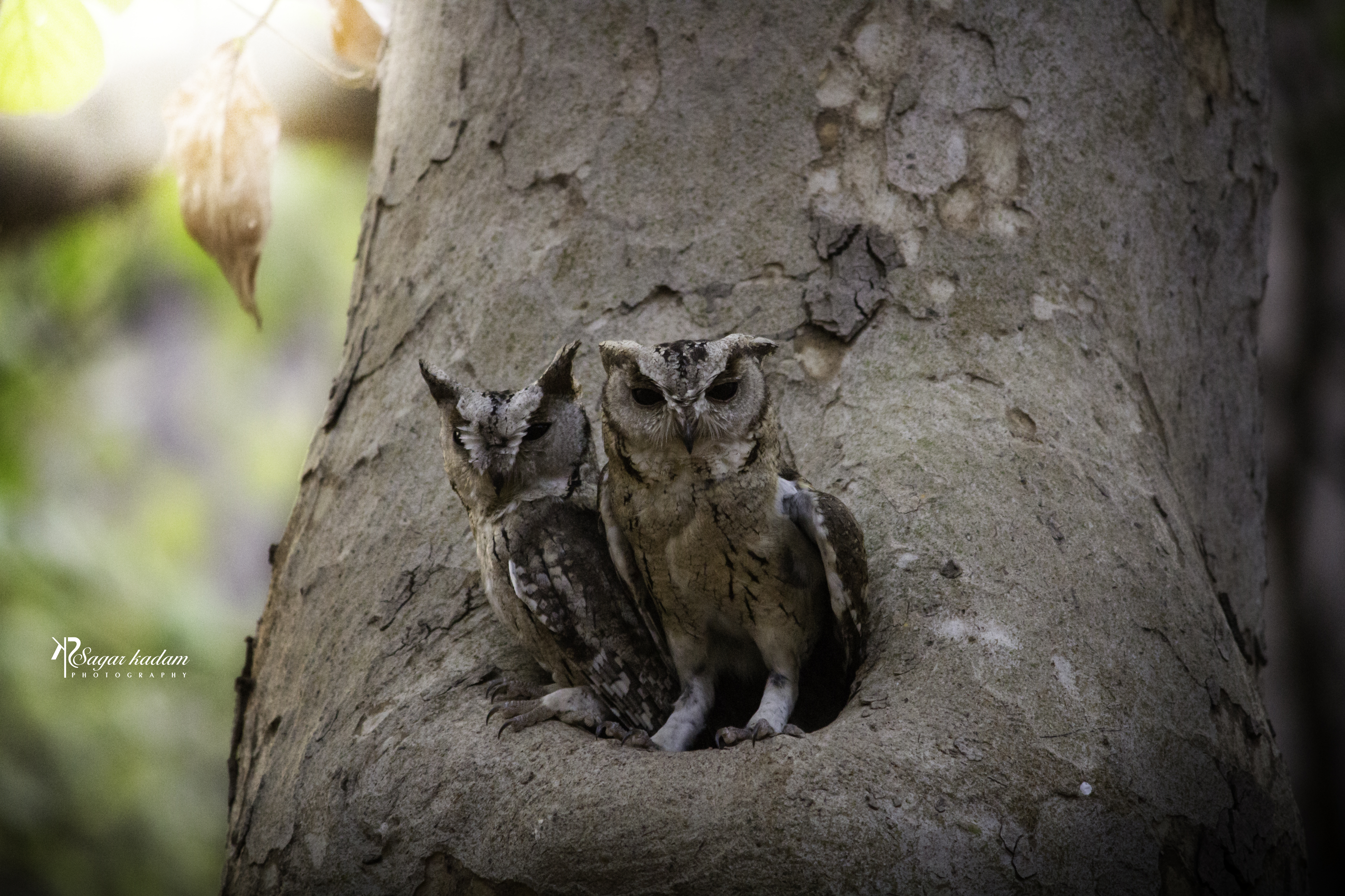 Ranthambore National Park